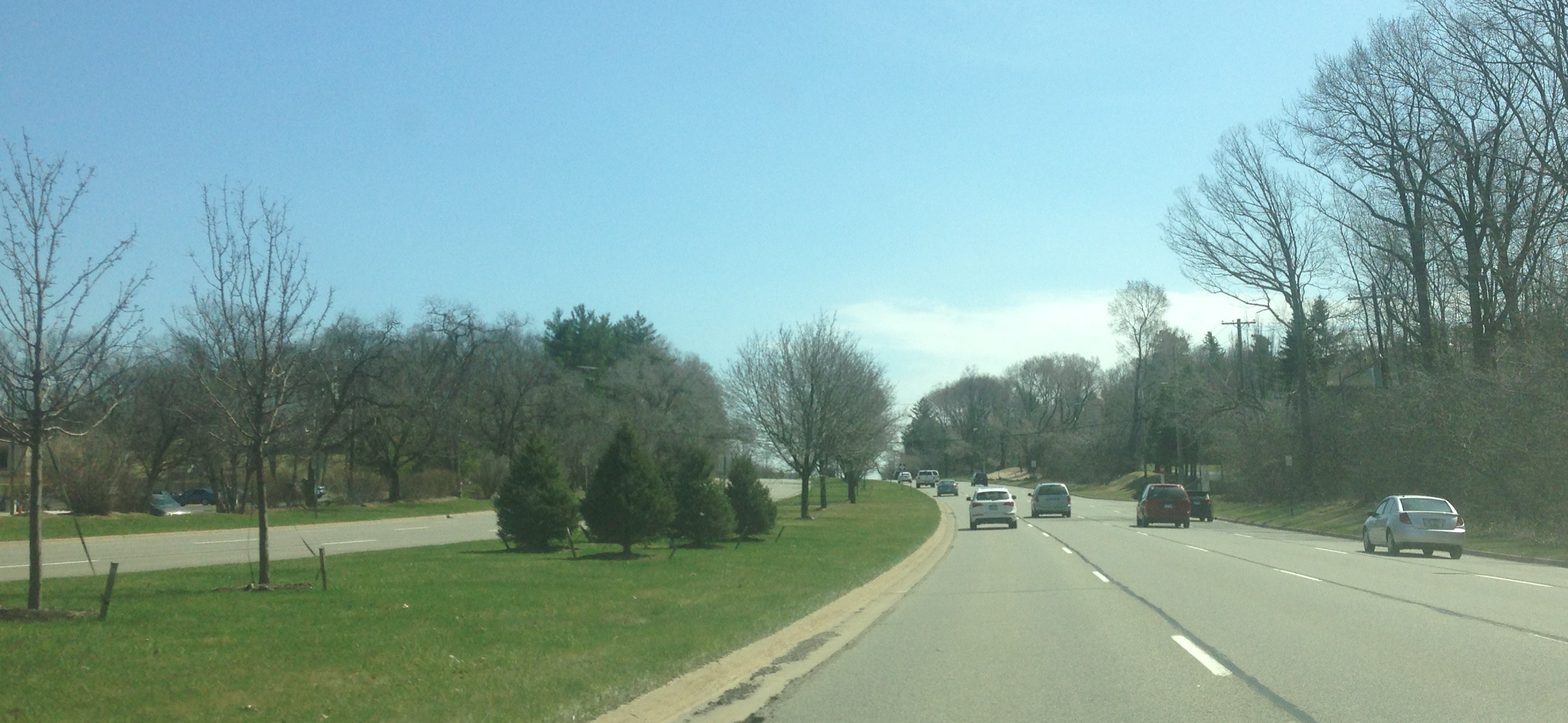 M-1 (Woodward Avenue) in Bloomfield Hills, Michigan